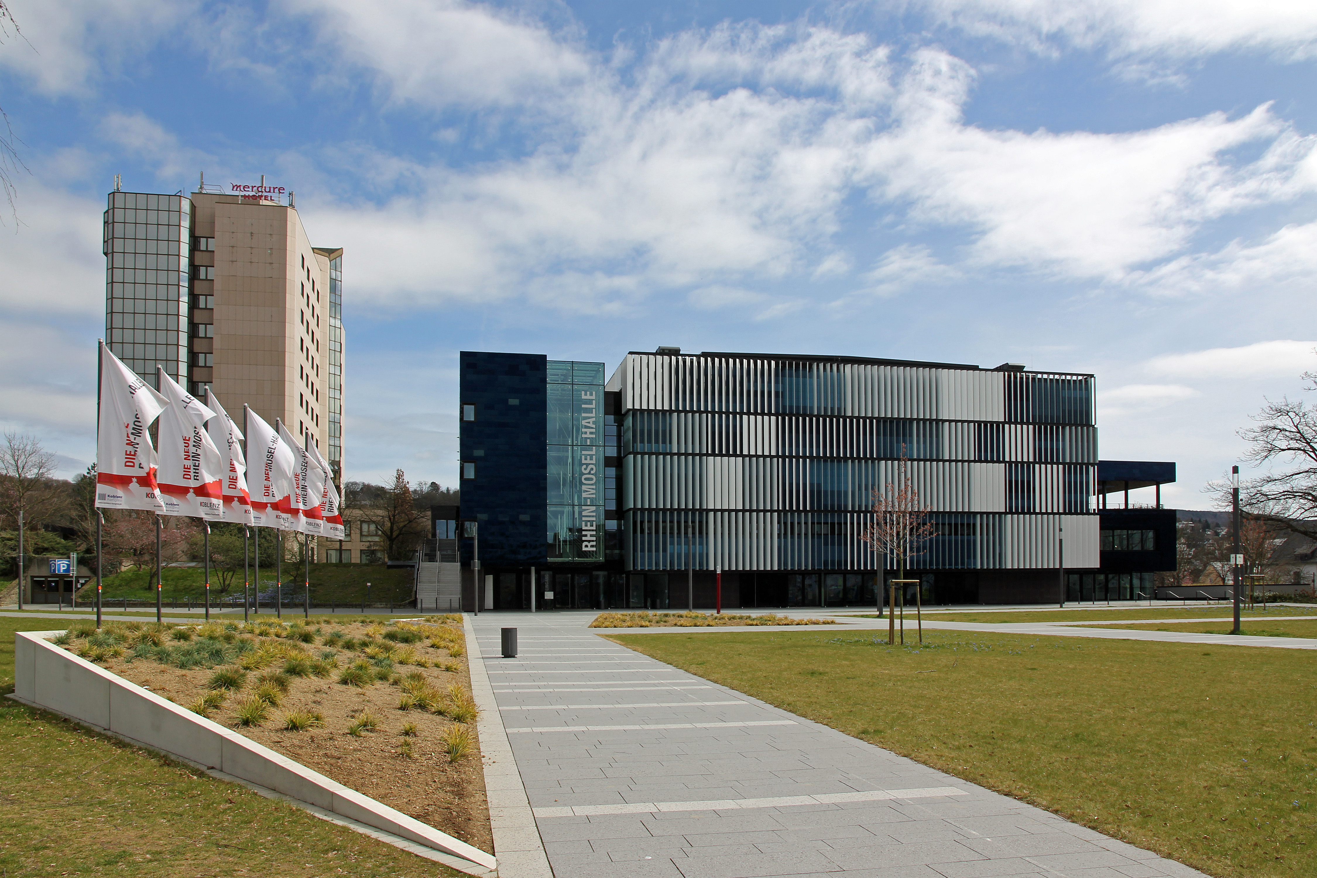 Rhein-Mosel-Halle in Koblenz